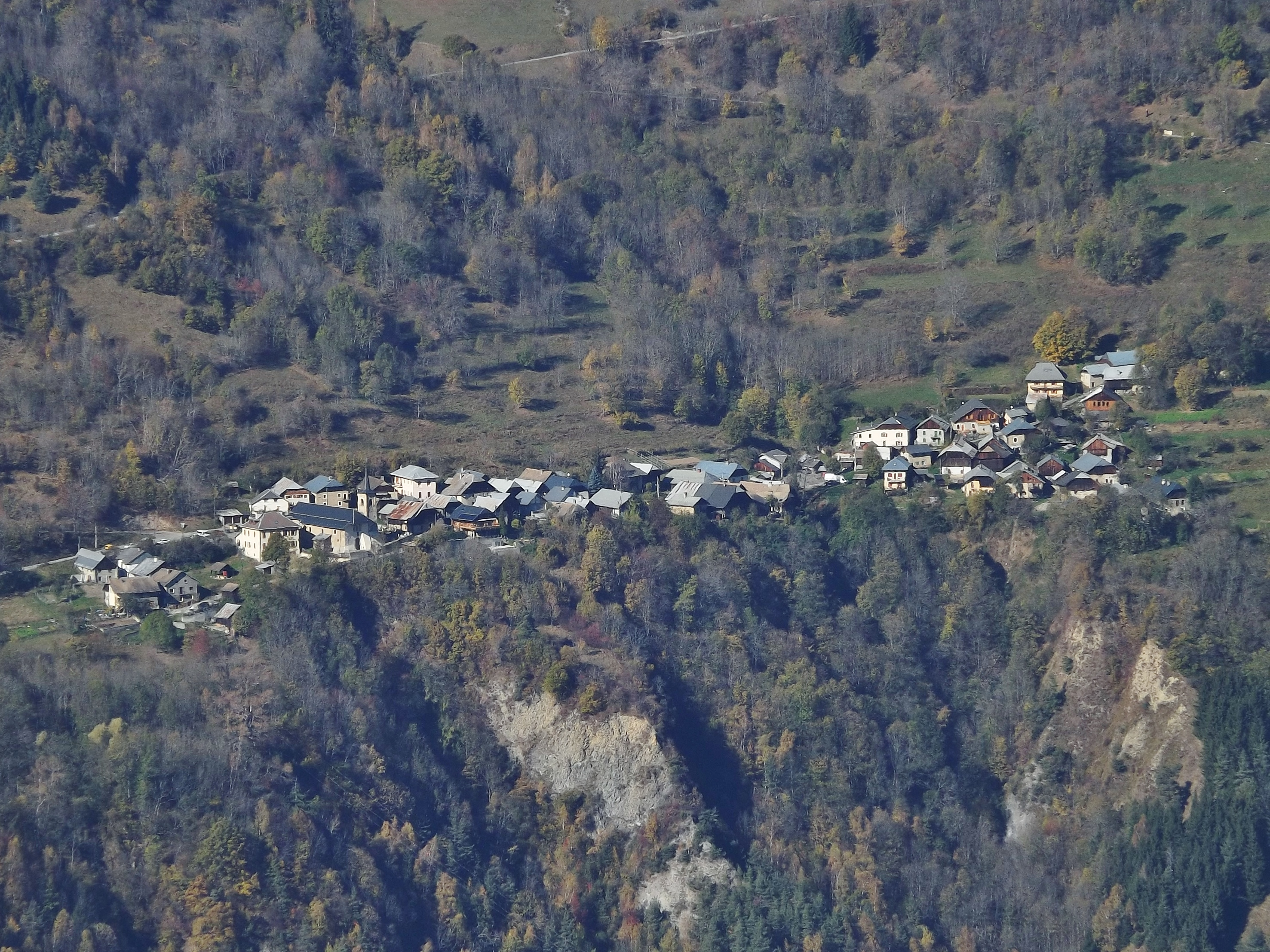 Panoramic sight of the French village and head of Montgellafrey commune, in Savoie, France.